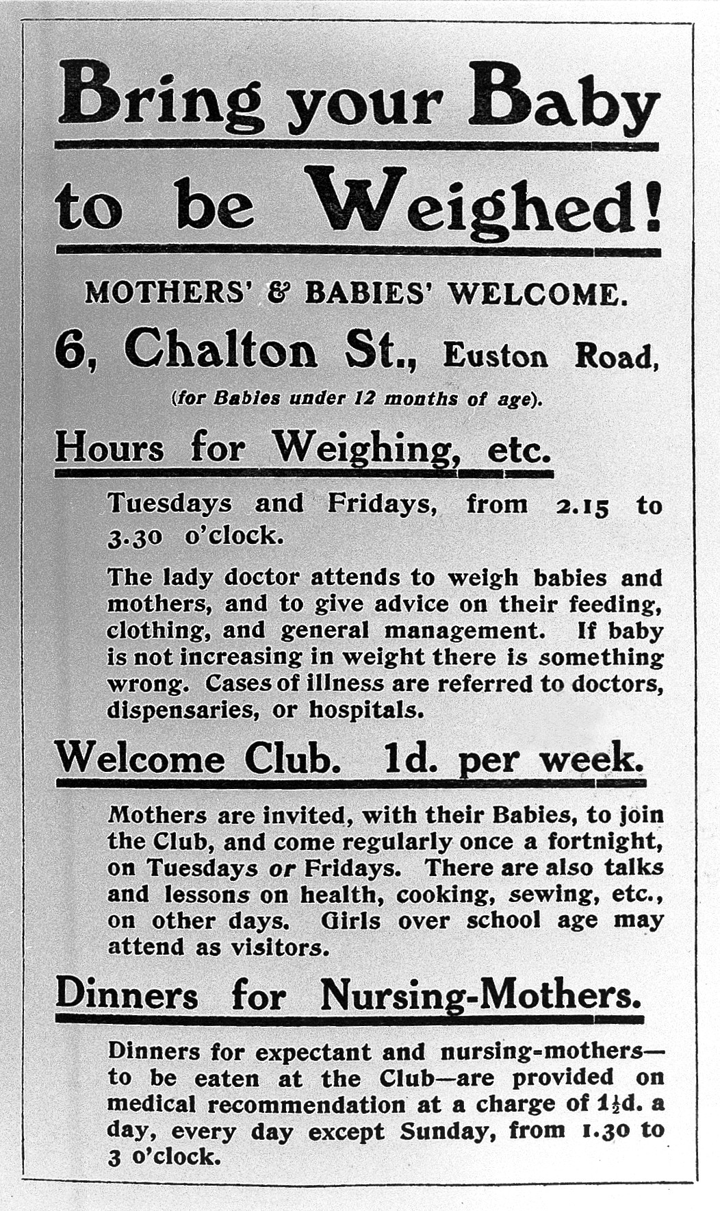 Poster: Bringing baby to be weighed General Collections Keywords: Bunting, Evelyn M., et al.